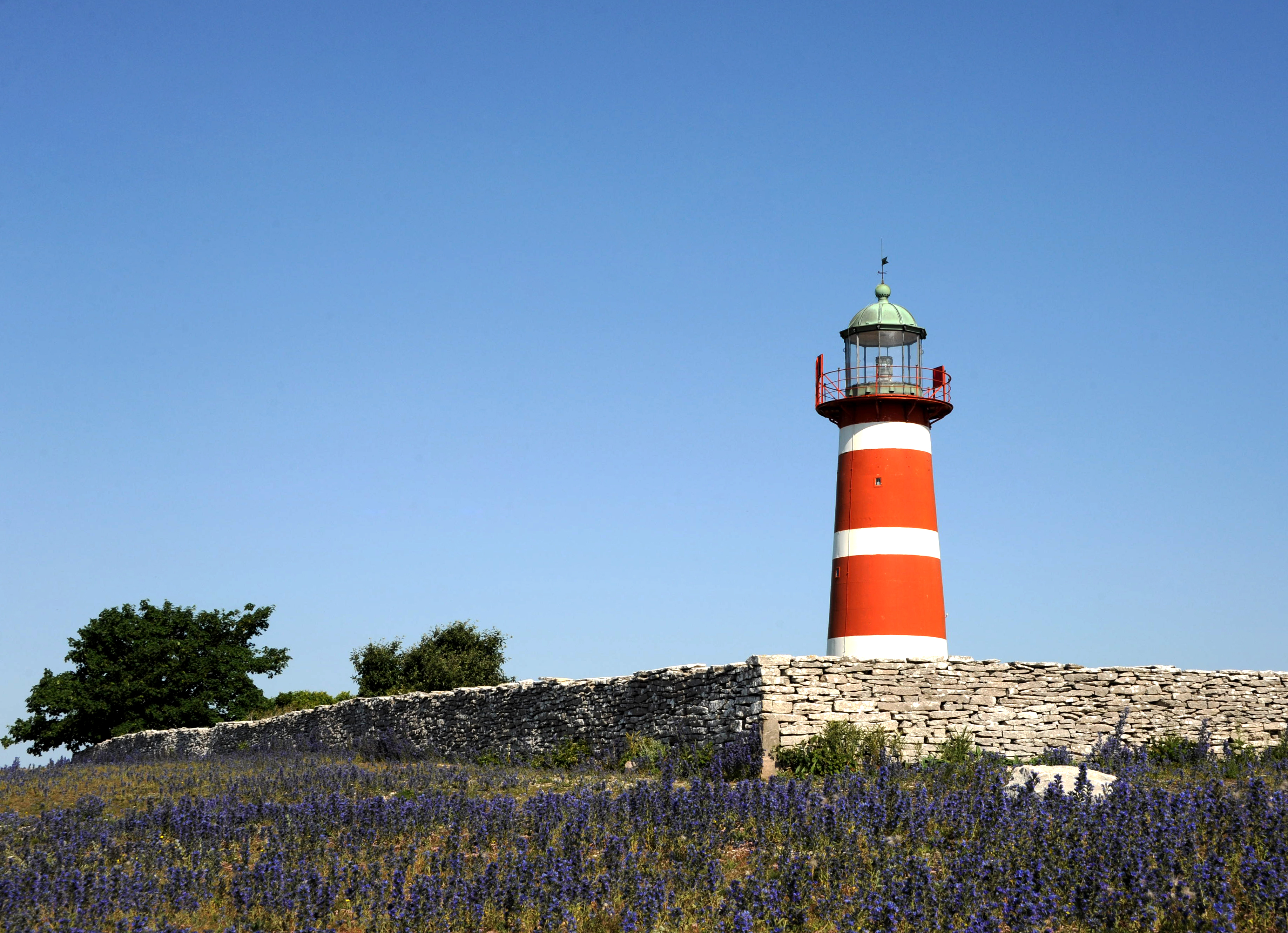 The lighthouse of Narshamn on the Swedish Island Gotland, with echium vulgare in the foreground